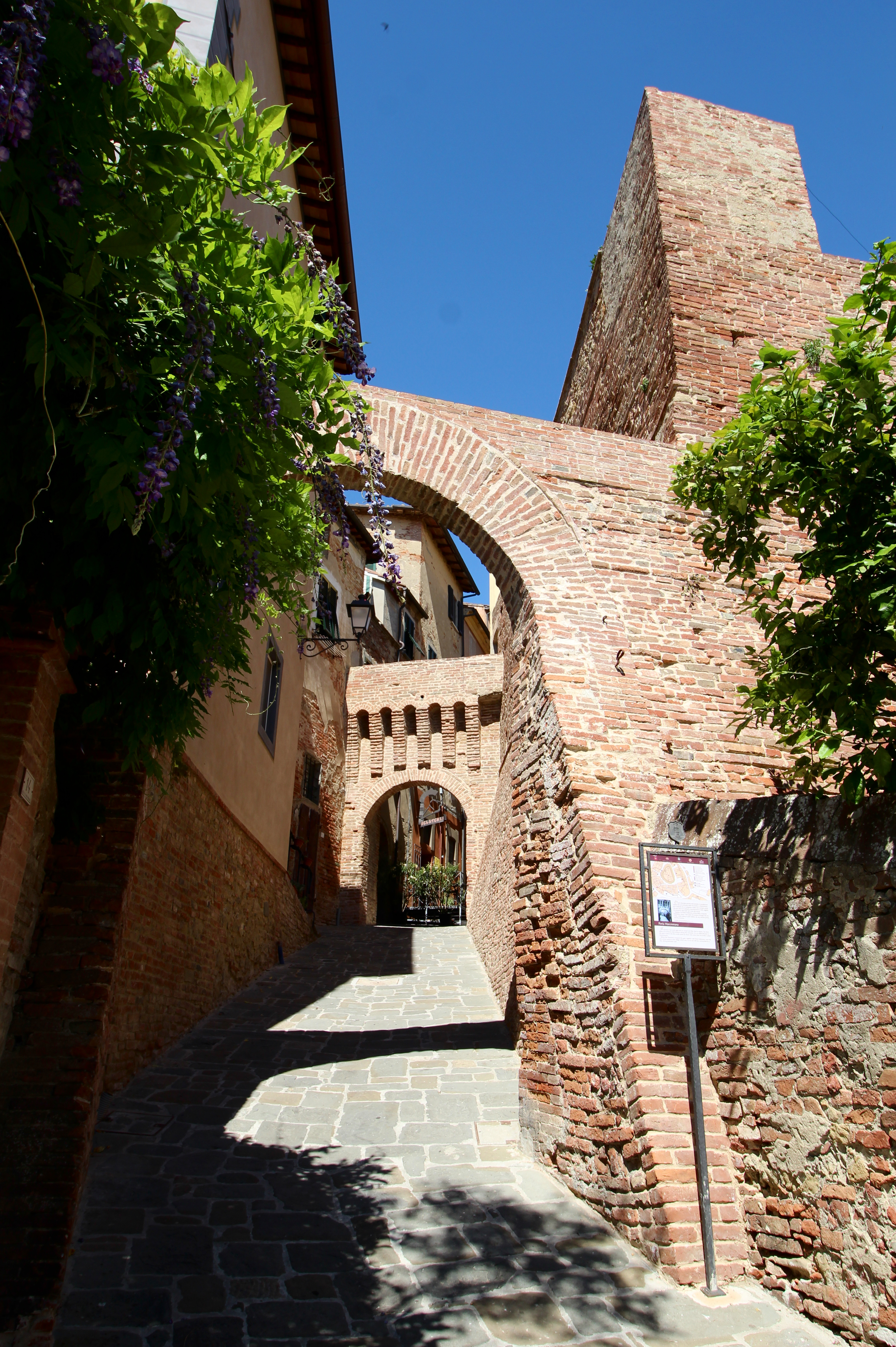 Porta Maremmana (also Porta Pisana), city gate in Lari, hamelet of Casciana Terme Lari, Province of Pisa, Tuscany, Italy